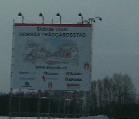 Horsås trädgårdsstad